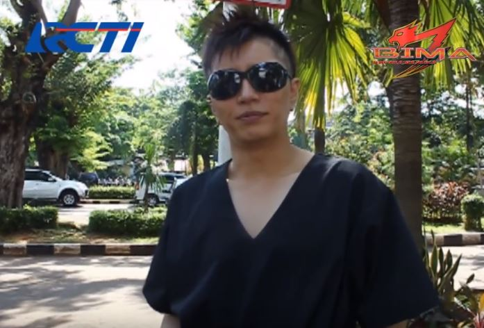 Gackt in 2013, on RCTI (PT.Rajawali Citra Televisi Indonesia)